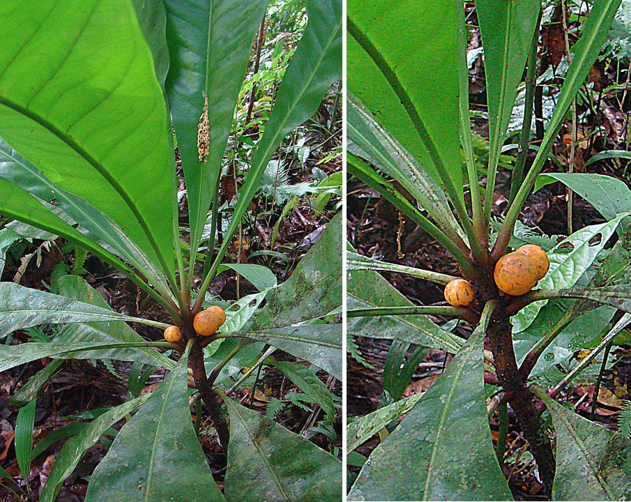 Photo from Indio Maiz Reserve, Nicaragua. Native from here to Columbia. In context at